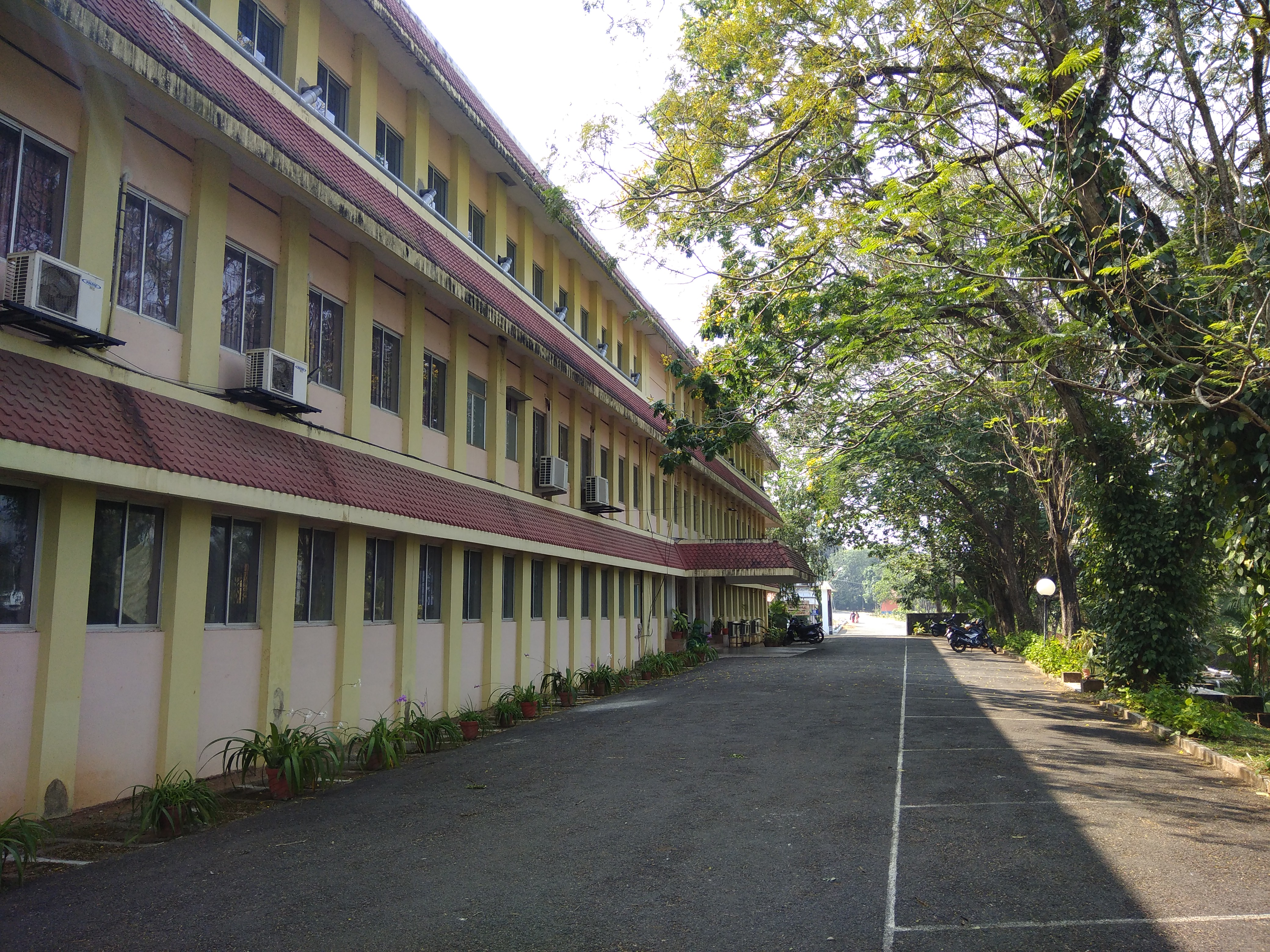 Kerala Institute of Local Administration (KILA) Administrative Building Mulamkunnathukavu, Thrissur, Kerala, India